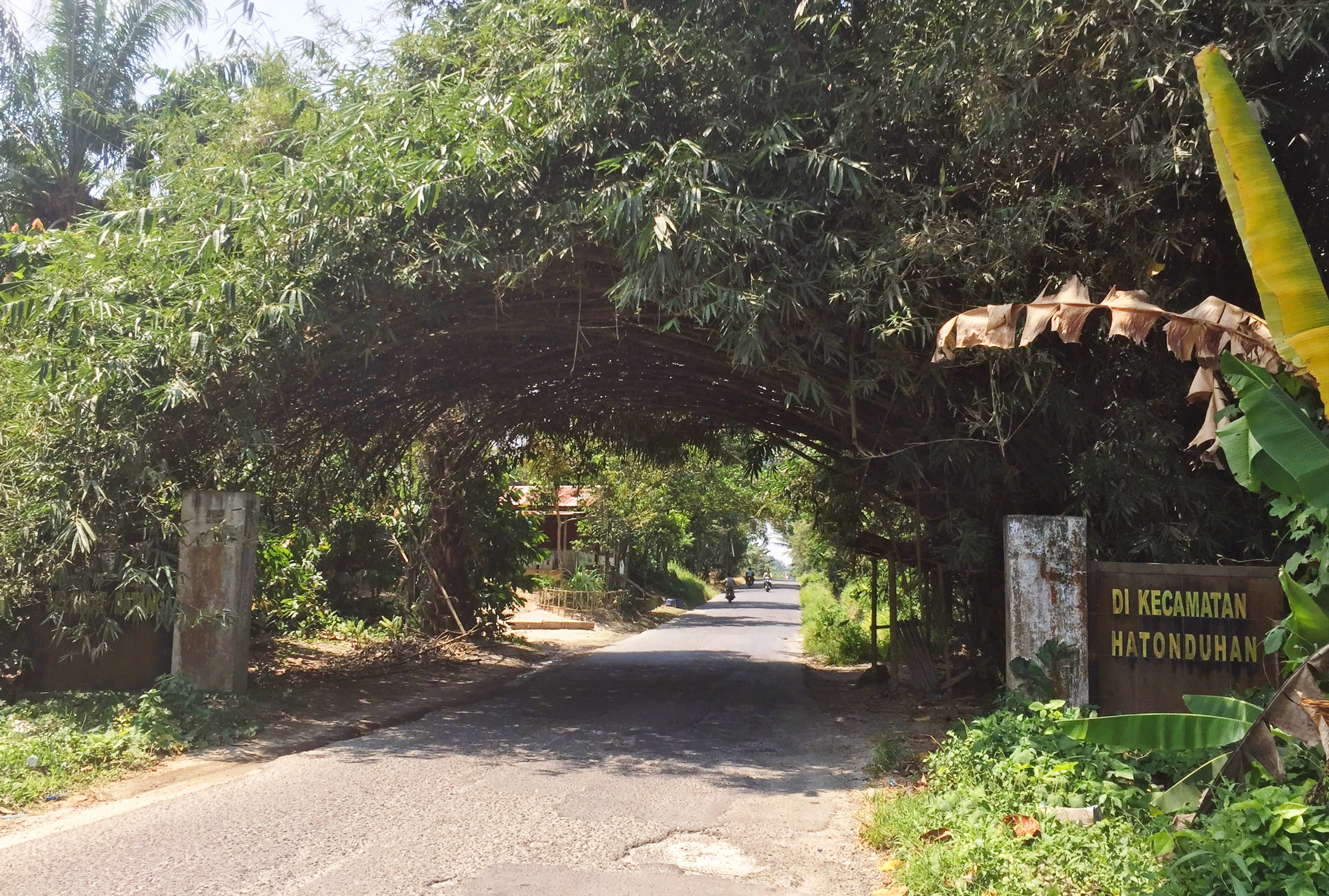 welcome gate to Hatonduhan, Simalungun